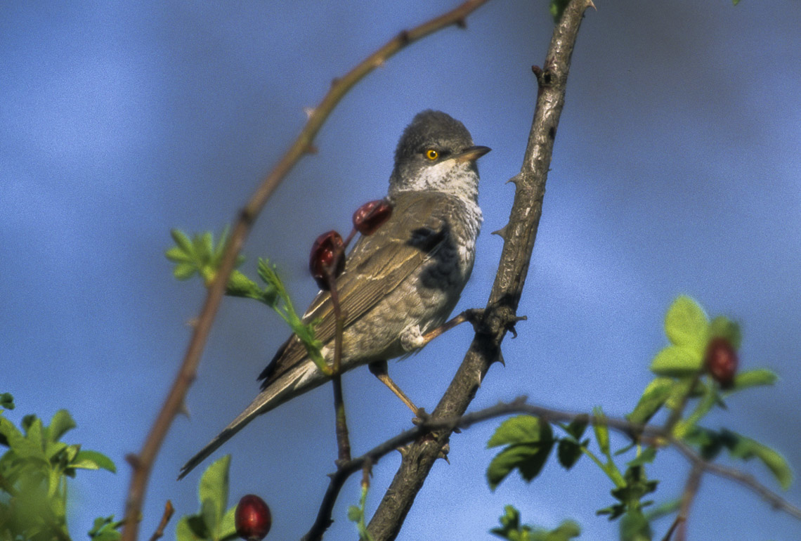 Barred Warbler - Hortobagy - Hungary_282